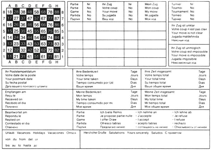 This is a trimmed image of "Postcard-for-correspondence-chess.jpg" originally uploaded to Wikipedia by Schach Niggemann, and licensed under the Creative Commons Attribution-Share Alike 3.0 Unported license.